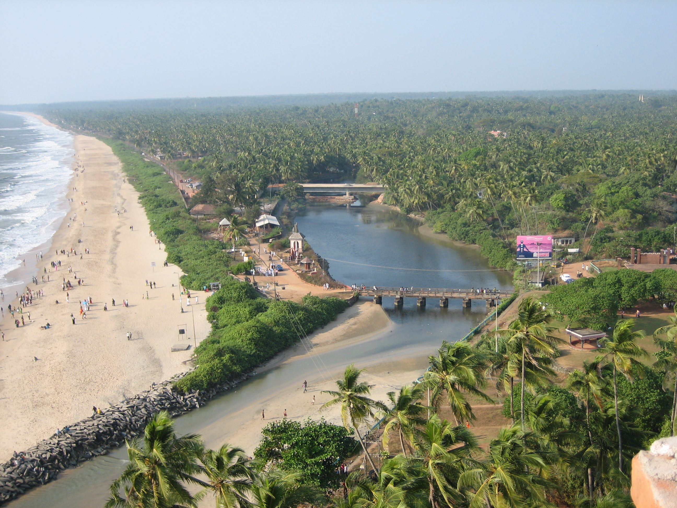 View of Payyambalam beach from top of skyline apartments